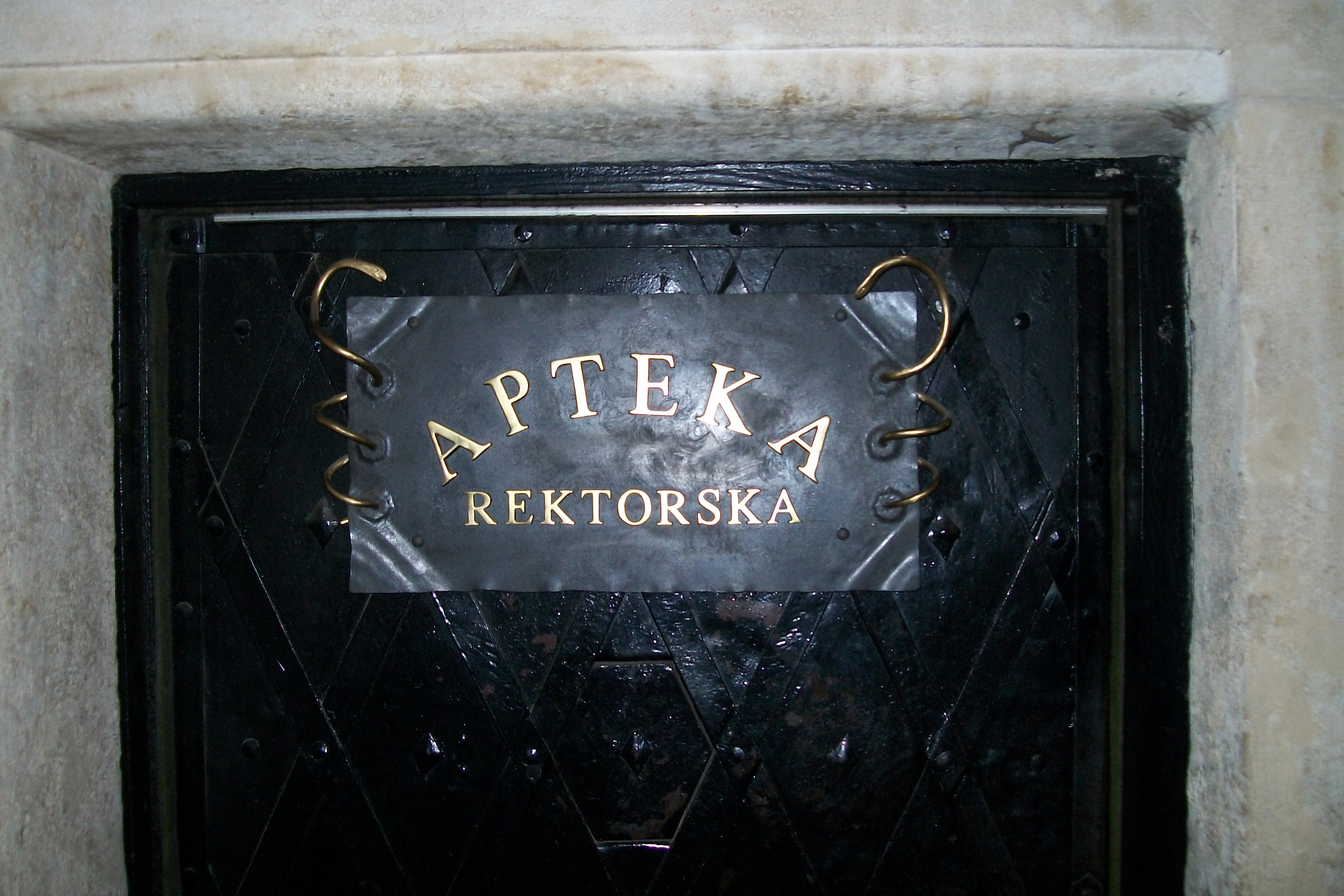 Pharmacy "Rektorska" in Zamość